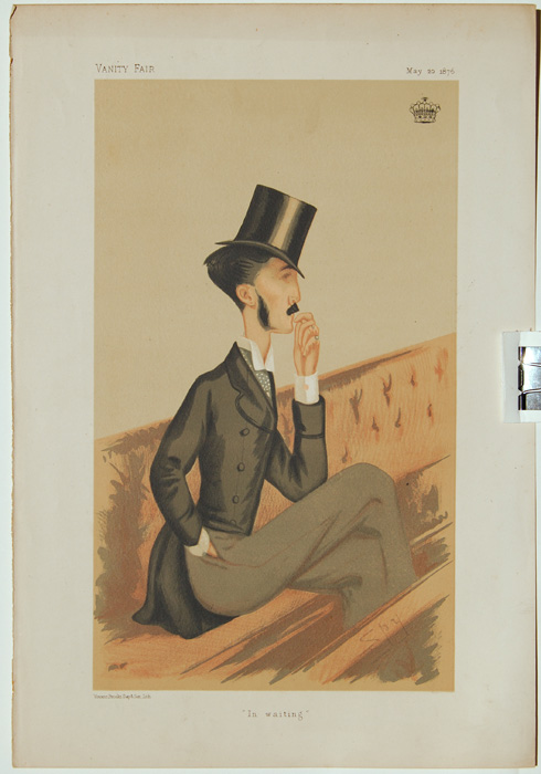 Statesmen No.223: Caricature of The Earl of Roden. Caption reads: "In waiting"